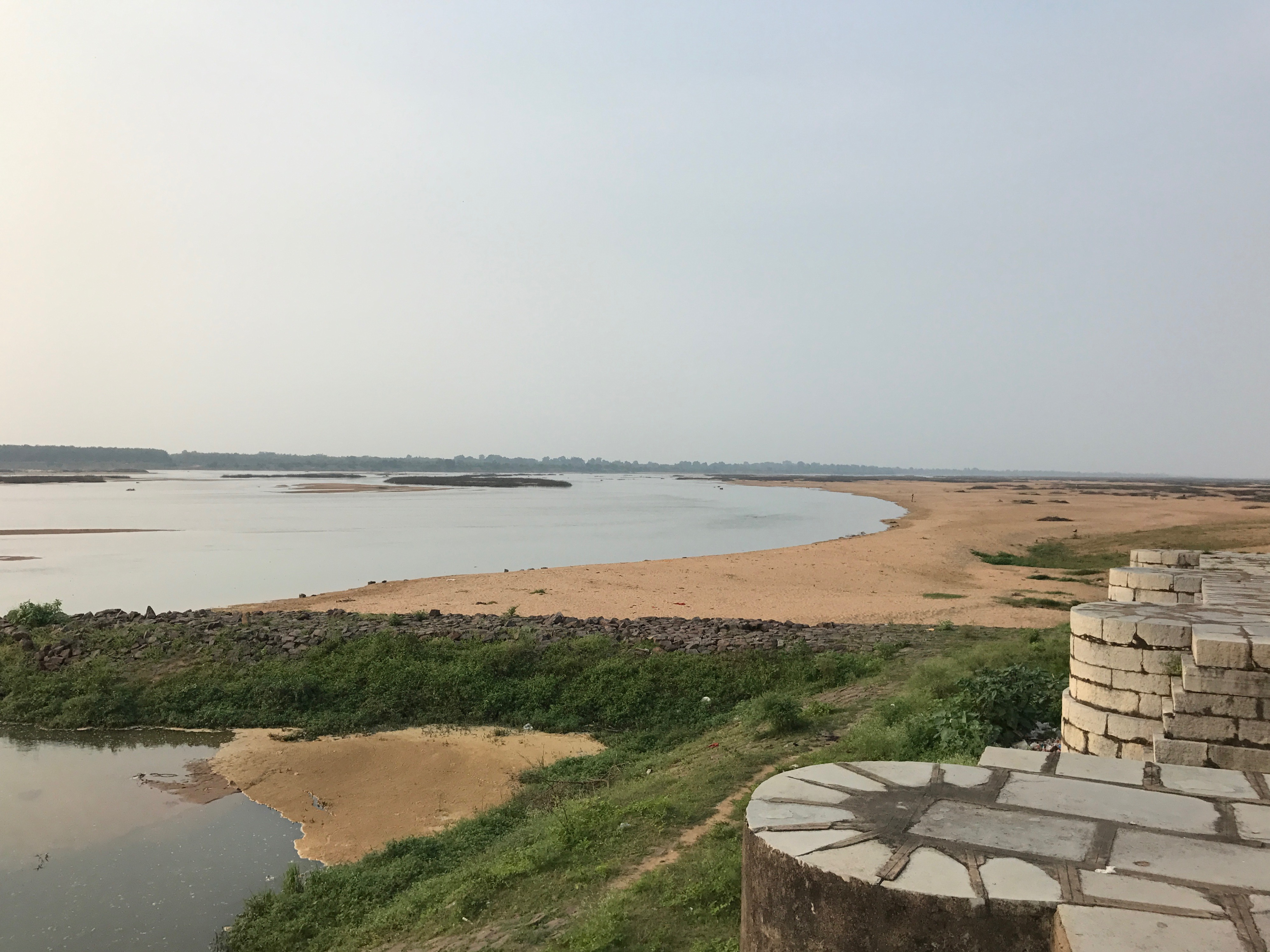 Sirpur, also referred in medieval era texts as Shripur (city of wealth), is a town on the banks of Mahanadi in Chhattisgarh. The site became archaeologically significant after a visit and report on a Laxman (Lakshmana) temple in 1872 by Alexander Cunningham, a colonial British India official. Sirpur is mentioned in the memoirs of the Chinese traveler Hieun Tsang as a location of monasteries and temples. The site has been significant for its temple ruins of Rama and Lakshmana of the Ramayana fame. The site excavations after 1960, particularly after 2003, have yielded 22 Shiva temples, 5 Vishnu temples, 10 Buddha Viharas, 3 Jain Viharas, a 6th/7th century market and snana-kund (bath house). The site shows extensive syncretism, where Buddhist and Jain statues or motifs intermingle with Shiva, Vishnu and Devi temples. The region was conquered and plundered by the armies of Delhi Sultanate and later Deccan Sultanates. The town and temples were damaged in the wars and were abandoned. Dense vegetation grew over it and floods deposited silt. There is also evidence of possible earthquake damage. 20th and 21st century excavations have unearthed many monuments. The site is large and artwork stick out of farmlands and dirt roads in and near Sirpur.